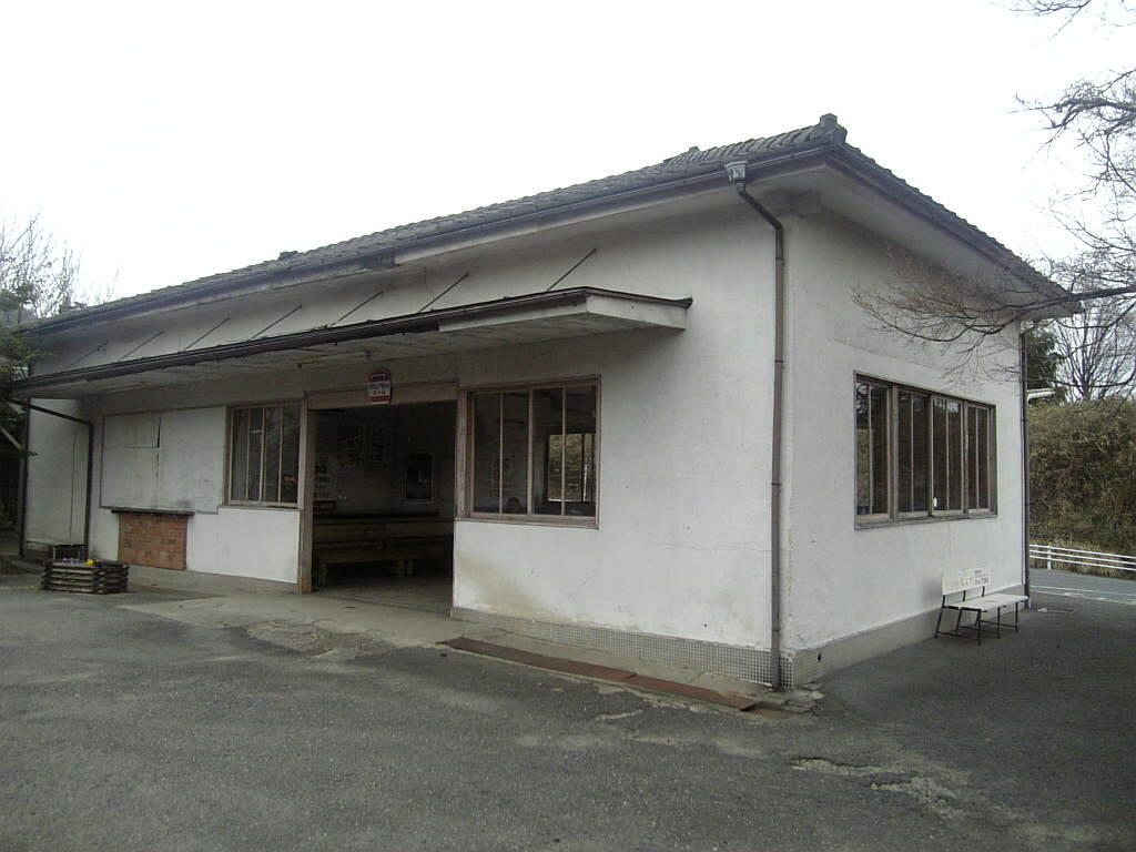 Shigisan Station on the Kintetsu Higashi-Shigi Cable Line